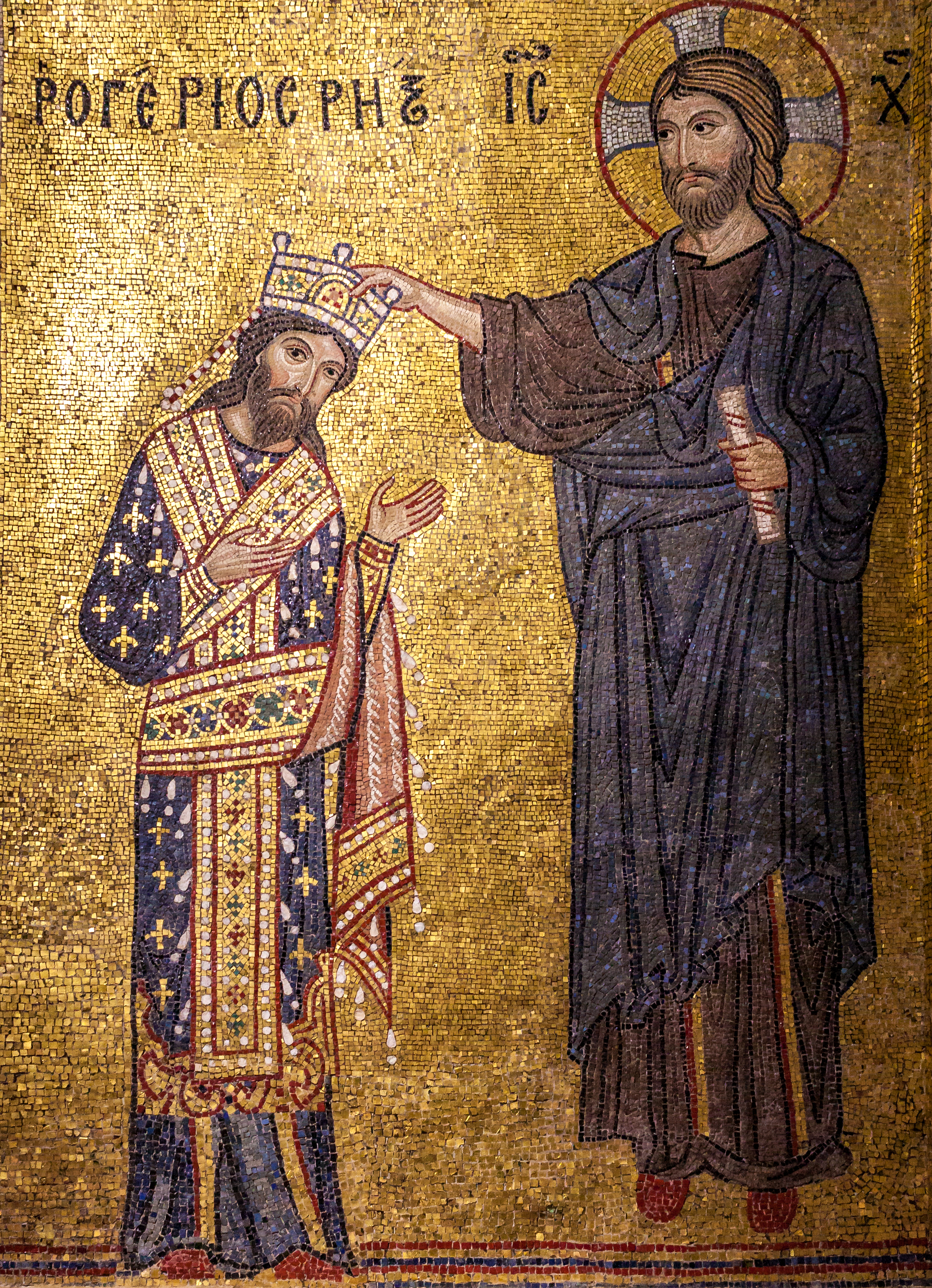 La Martorana, also known as Santa Maria dell'Ammiraglio (Saint Mary of the Admiral), is a church in Palermo (Sicily, Italy). The church is annexed to the next-door church of San Cataldo and overlooks the Piazza Bellini in central Palermo.